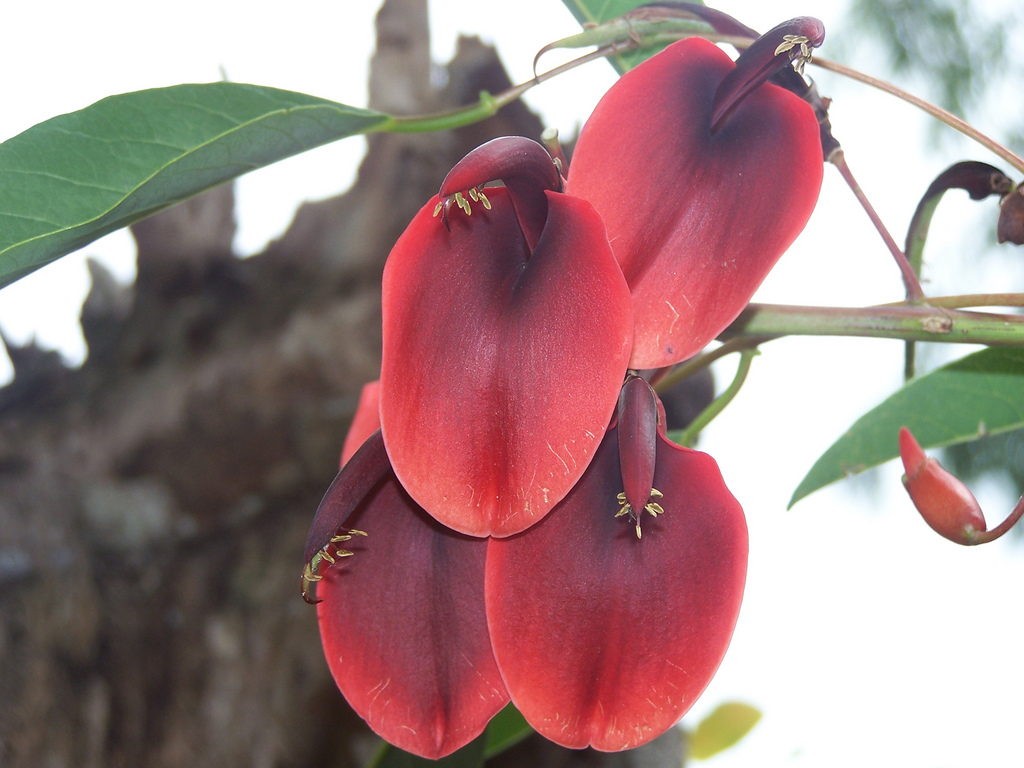 Erythrina crista-galli—a Seibo tree in the Delta, full of beautiful flowers.